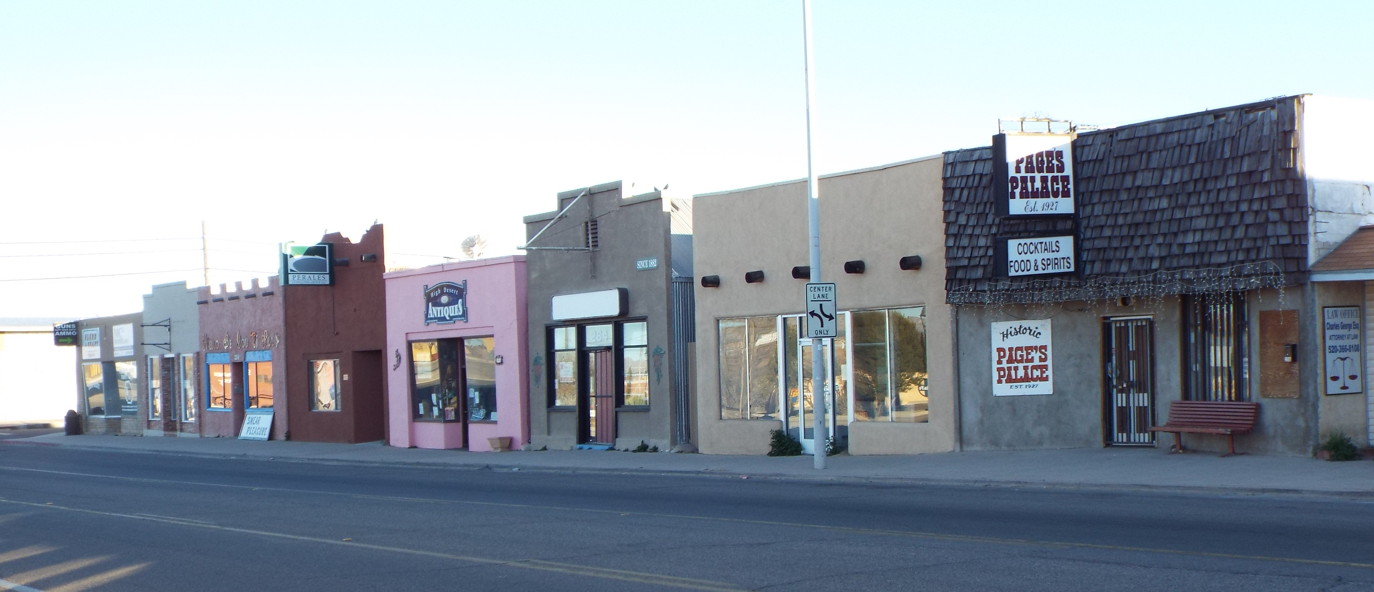 Downtown Benson, Arizona